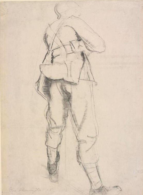 Upright figure seen from the rear